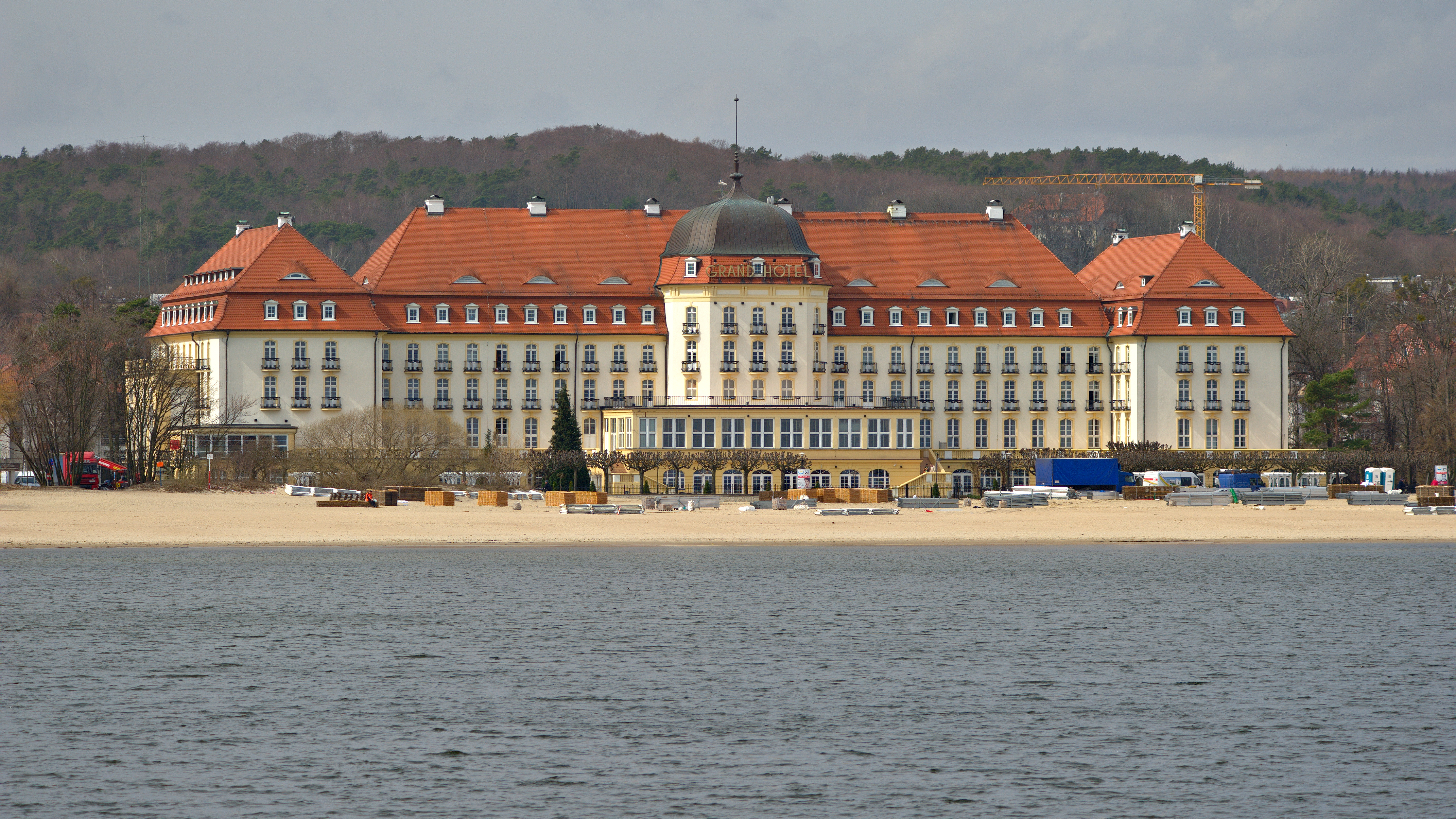 Grand Hotel. View from the end of Sopot Pier.